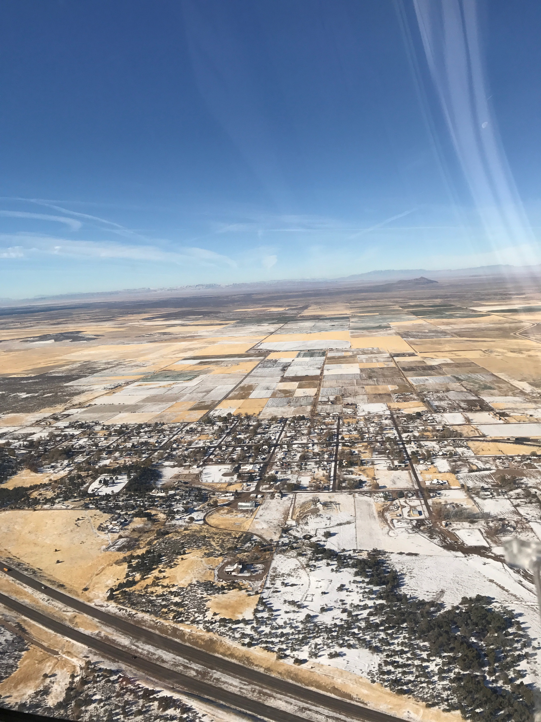 From a Plane